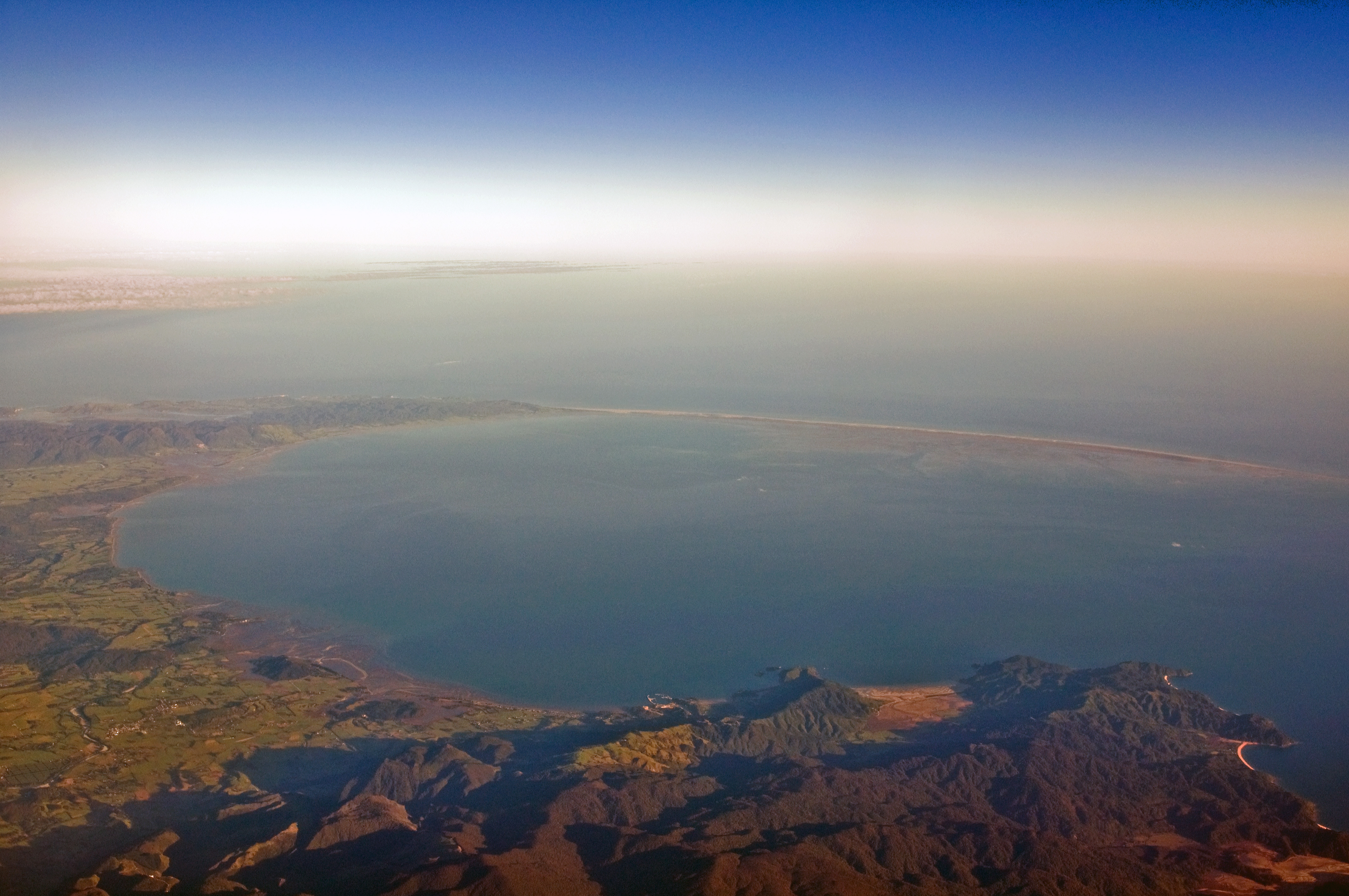 En route Wellington to Sydney in an Air NZ A320